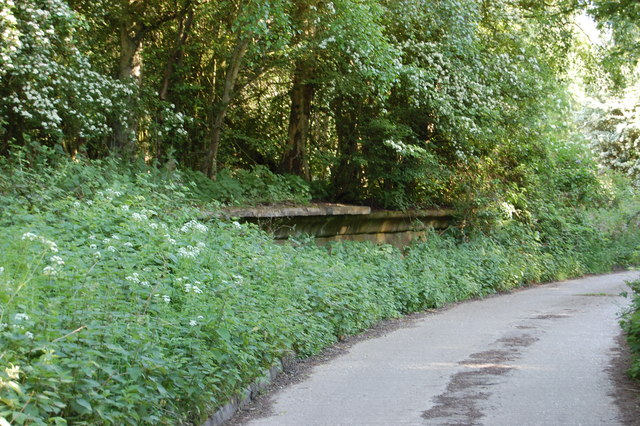 Thorpeness railway station Original description: Thorpness Halt platform All that remains of the halt at Thorpeness on the former Saxsmundham to Aldeburgh line